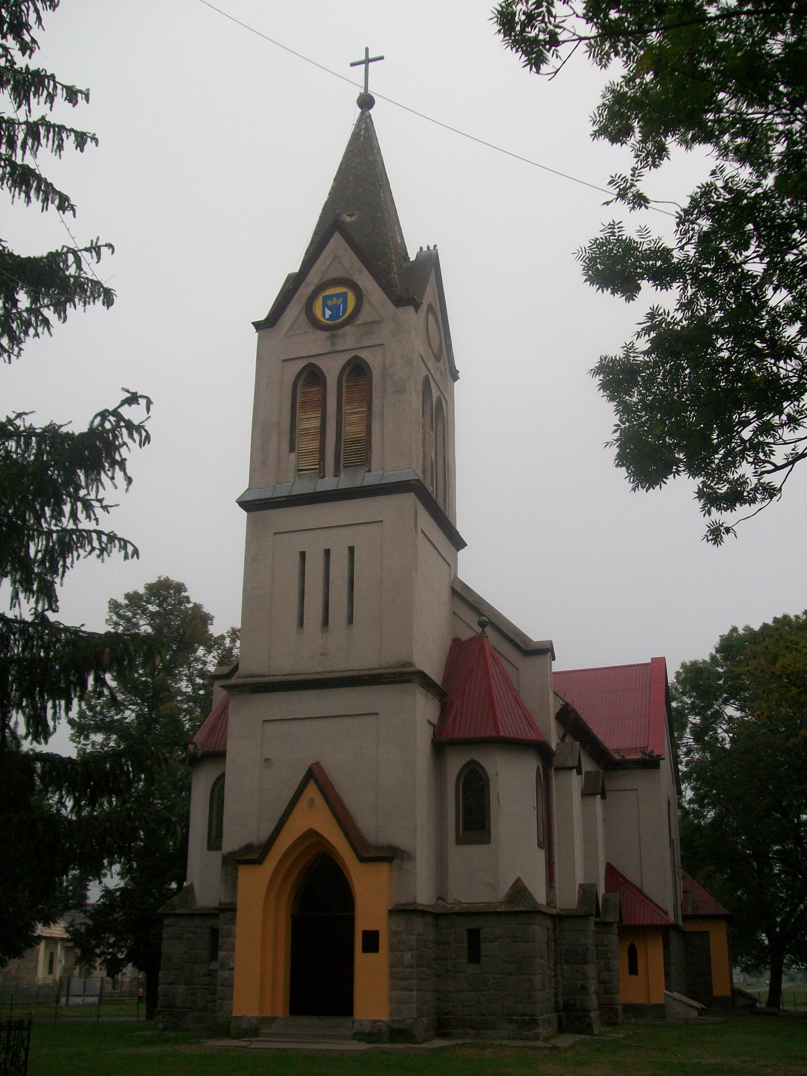 The Roman Catholic church in the village TrenčSlovenčina: Rímskokatolícky kostol v obci Trenč